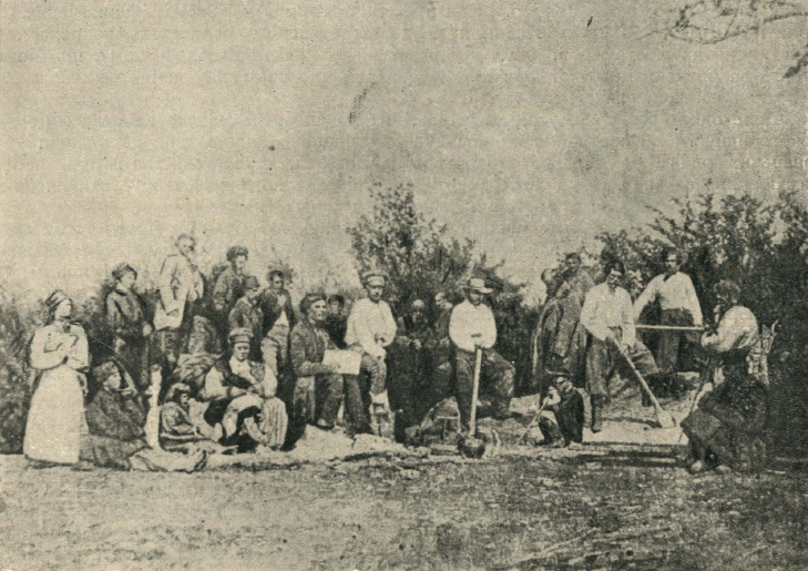 Villagers digging the grave of Shevchenko in Kaniv.